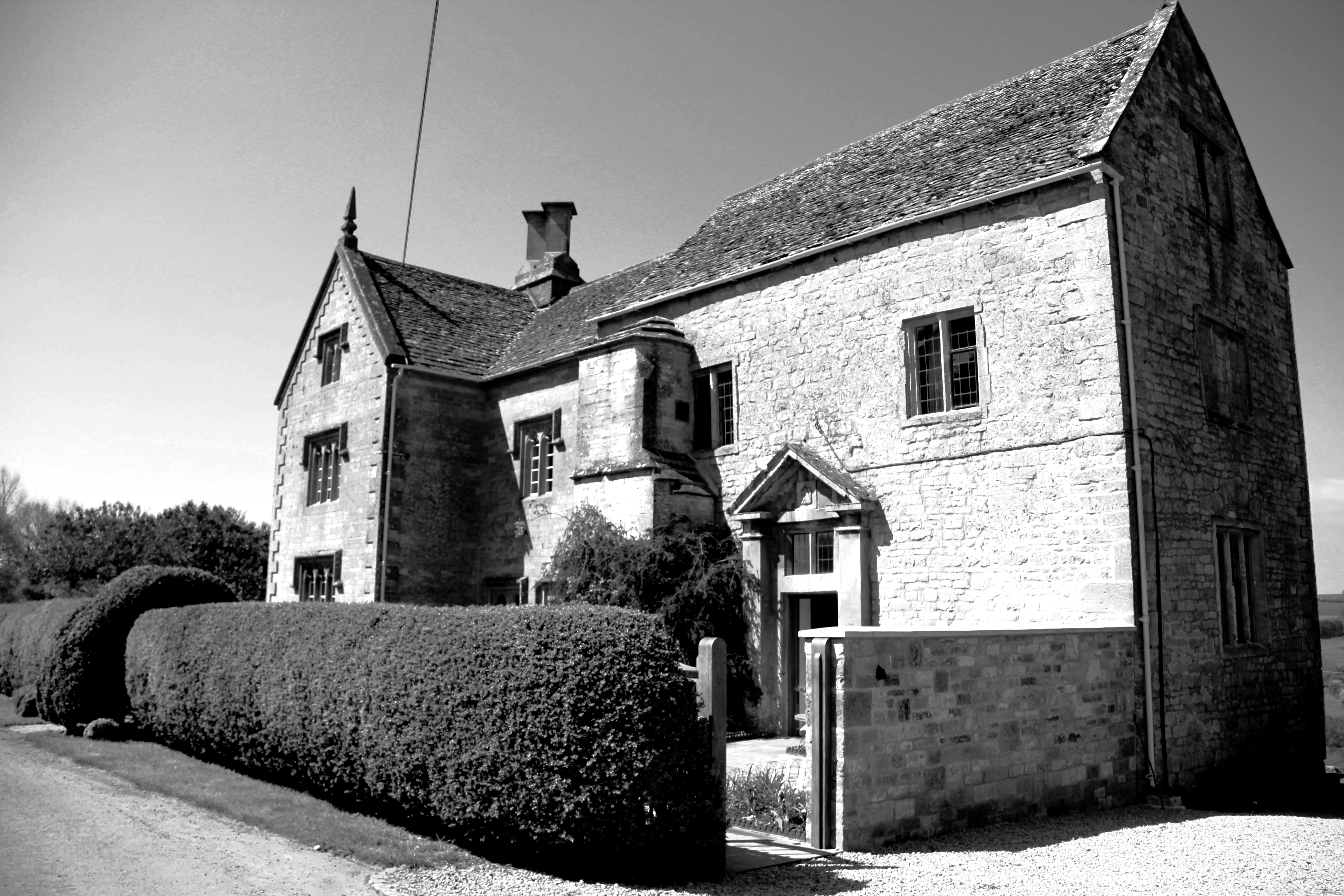 Great Farmcote Manor, Gloucestershire - the feudal manor house of the Farmcote Estate, historically the seat of the ancient Stratford Family